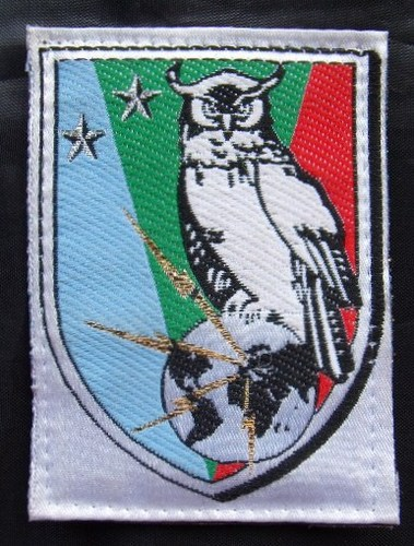 Badge Intelligence Brigade (France).